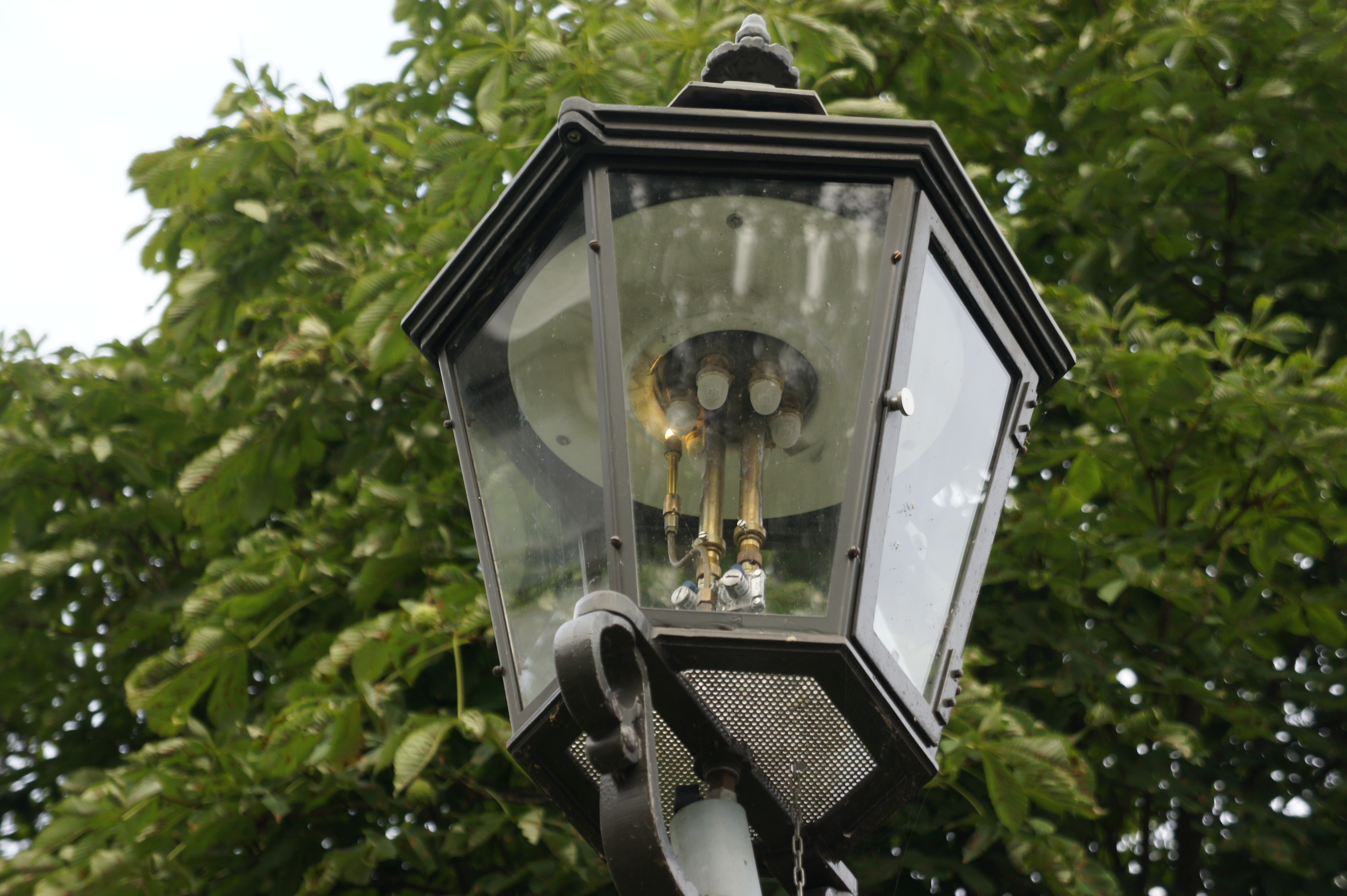 Gas lamp in Rathenow (Germany)